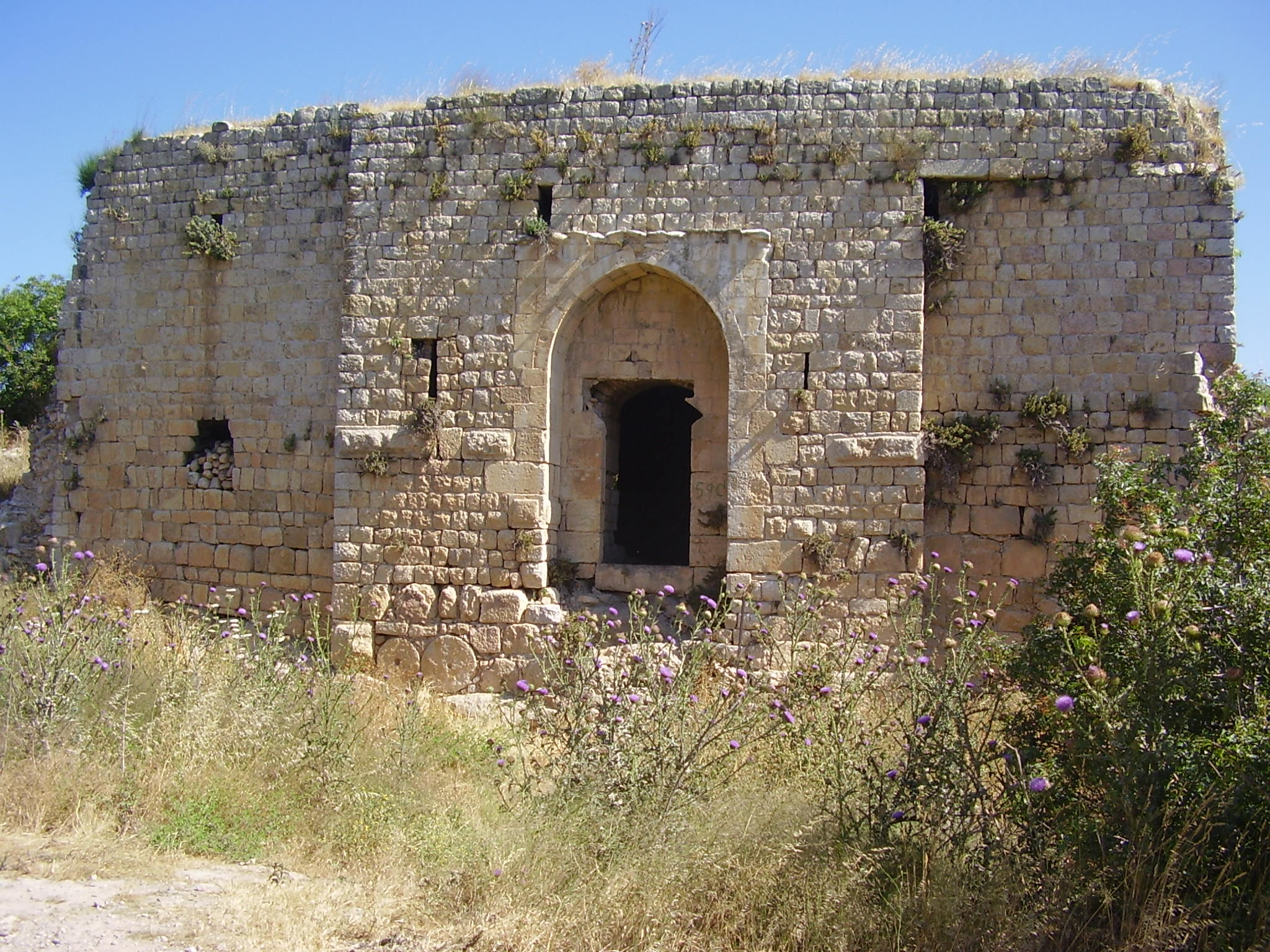 chateau neuf fortress in upper galilee מצודת שאטו נף (הונין)ליד מושב מרגליות